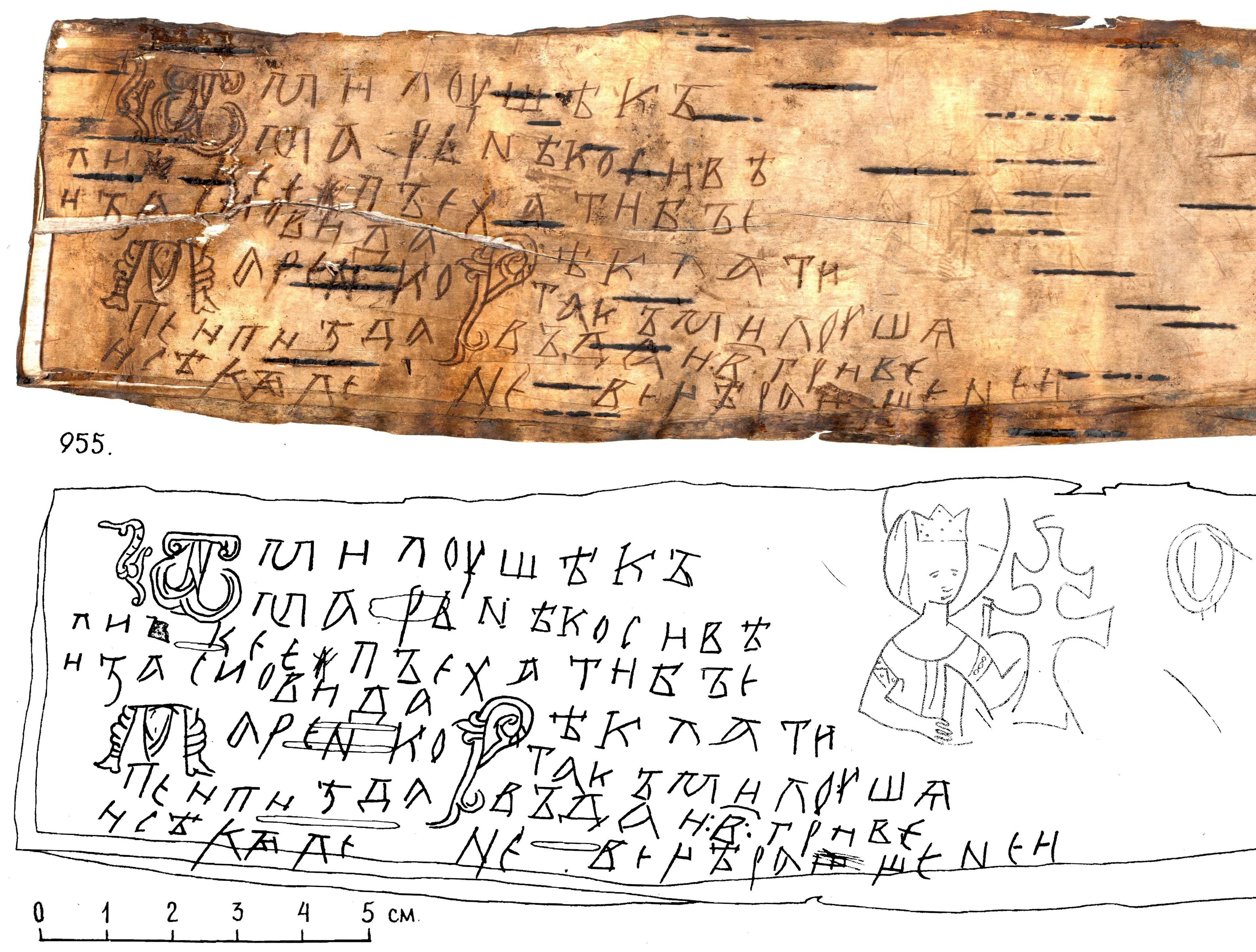 Birch bark letter N 955 (XIIth c.) found in Novogrod Vielikij: the letter Matchmaker's Milusha to Marena